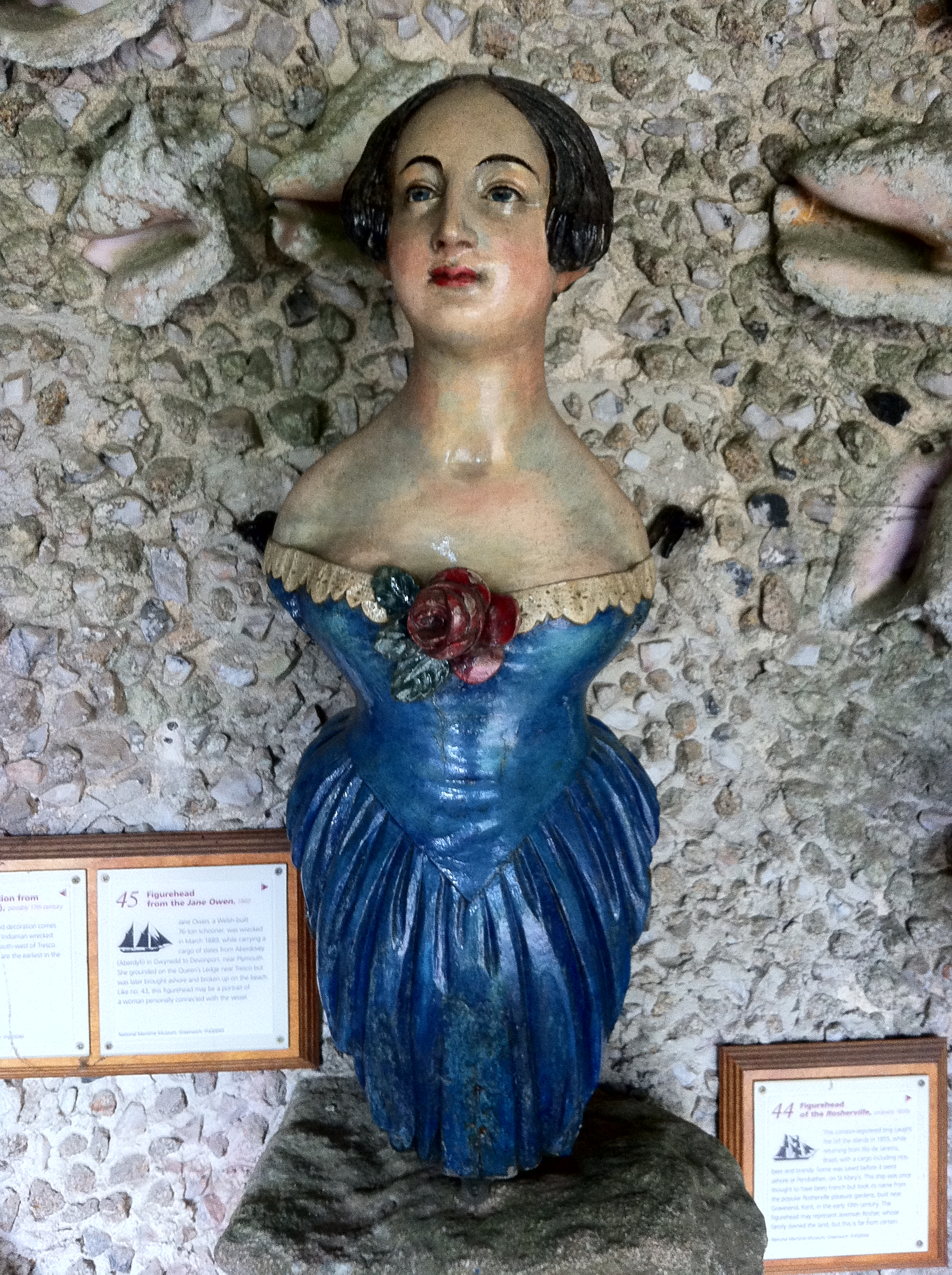 Jane Owen, a Welsh built 76-ton schooner, was wrecked in March 1889 while carrying a cargo of slates from Aberdovey (Aberdyfi) in Gwynedd to devonport. She grounded on the Queen's Ledge near Tresco but was later brought ashore and broken up on the beach. In the Valhalla Museum in Tresco Abbey Gardens, Isles of Scilly.